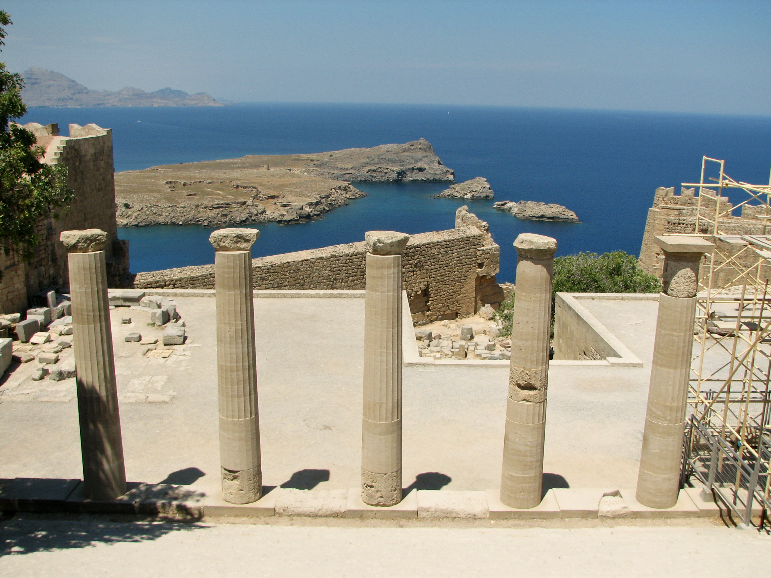 Acropolis of Lindos, Rhodes, Greece